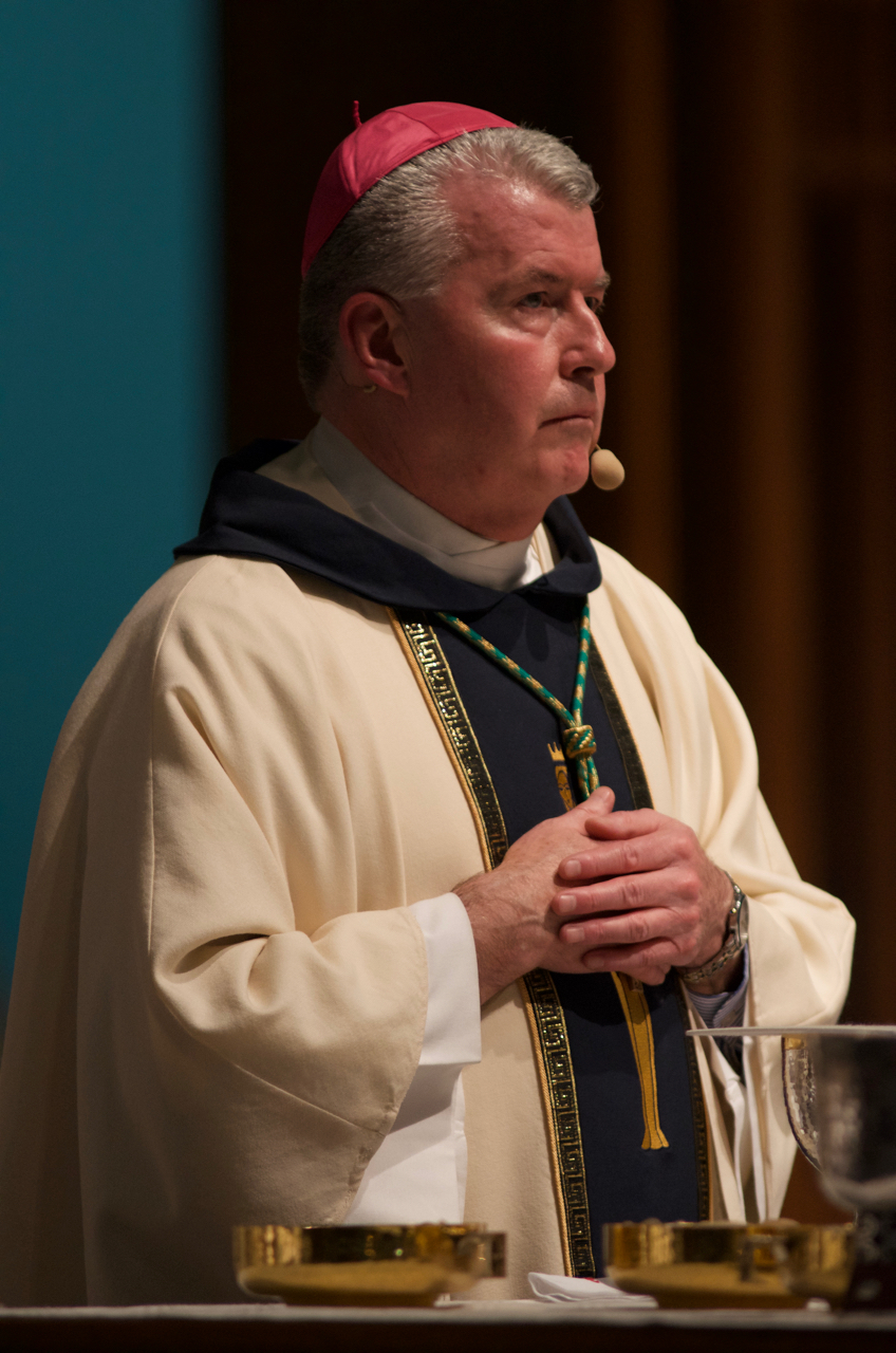 William McGrattan presiding at a Chrism Mass